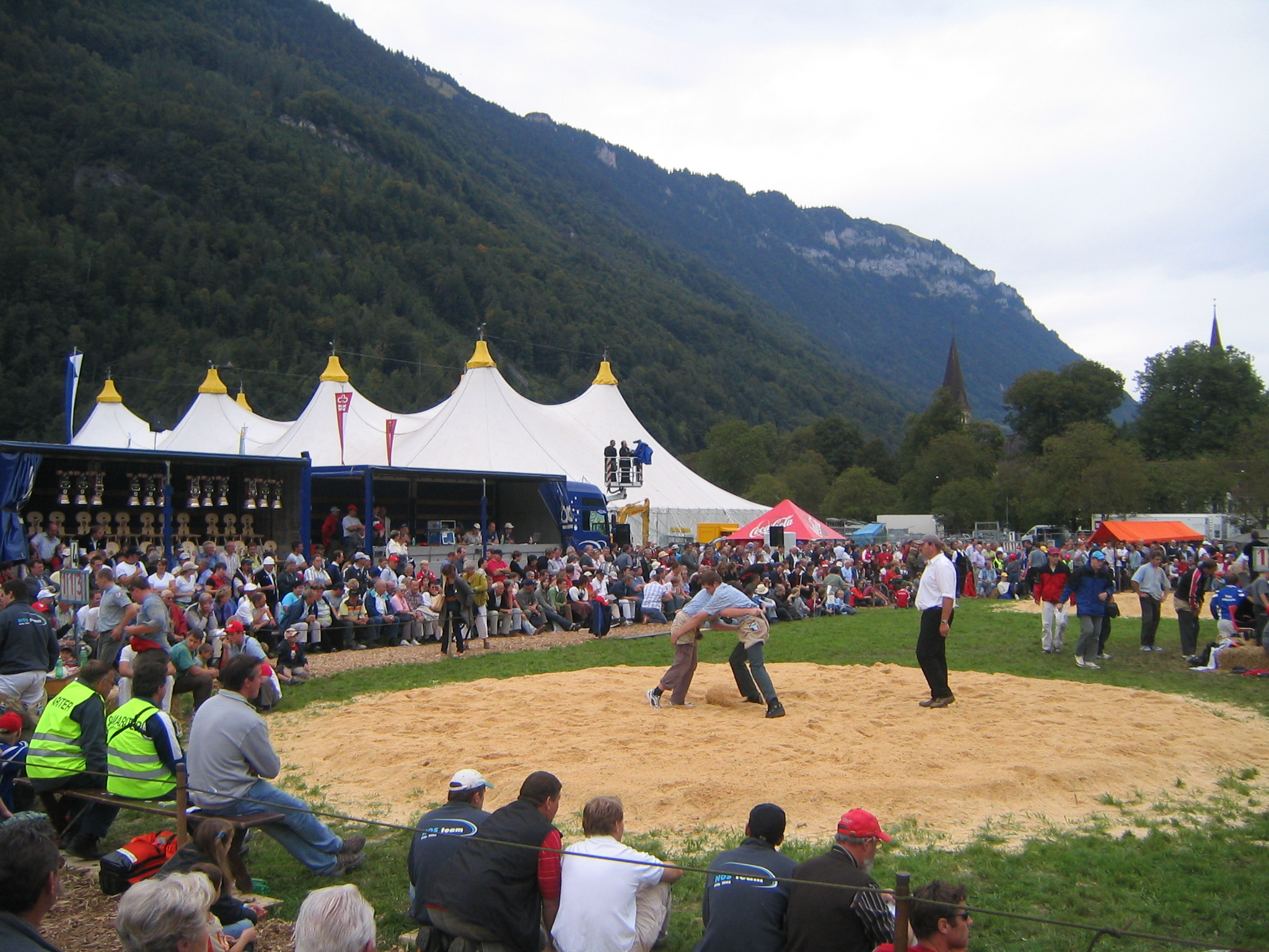 Competitition in Swiss sport "Schwingen" at the Unspunnen Festival 2006 in Interlaken, Switzerland